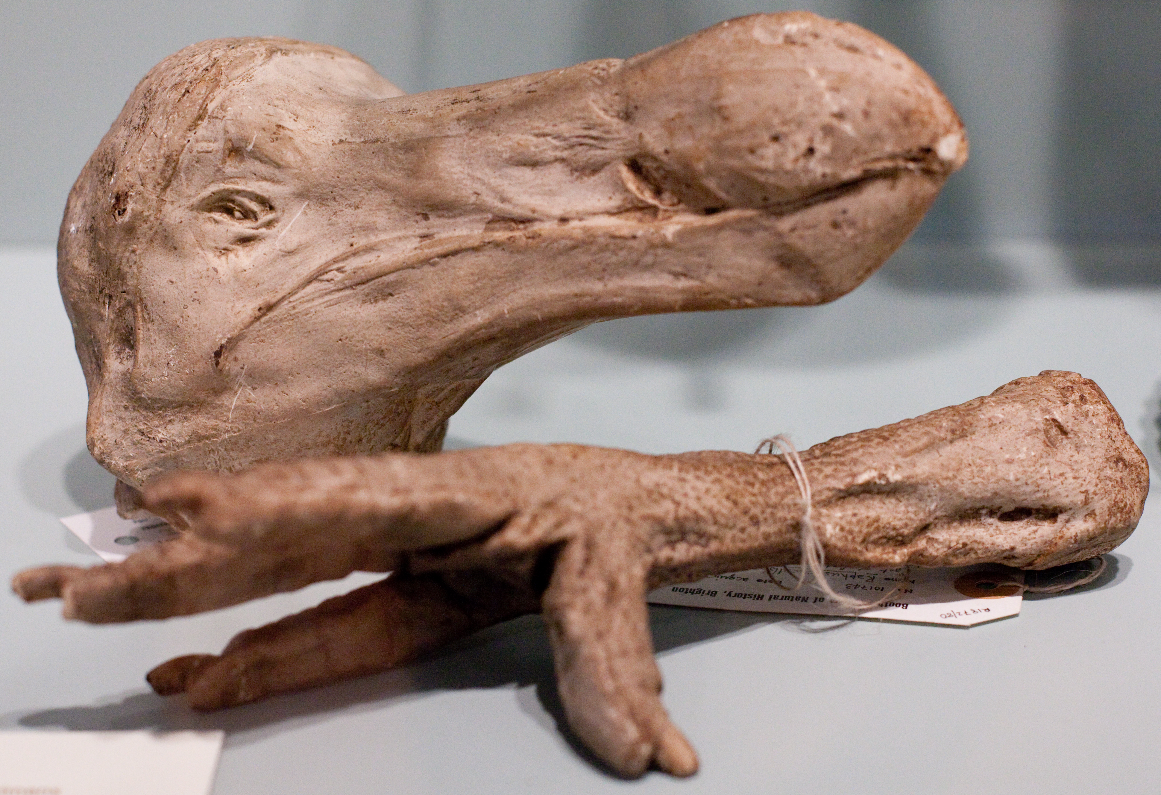 Plaster cast of the dried Oxford head and London foot of a Dodo bird at the Booth Museum of Natural History, Brighton, England. The Oxford University Museum of Natural History owns the only remaining Dodo tissue samples, and the foot is now lost.